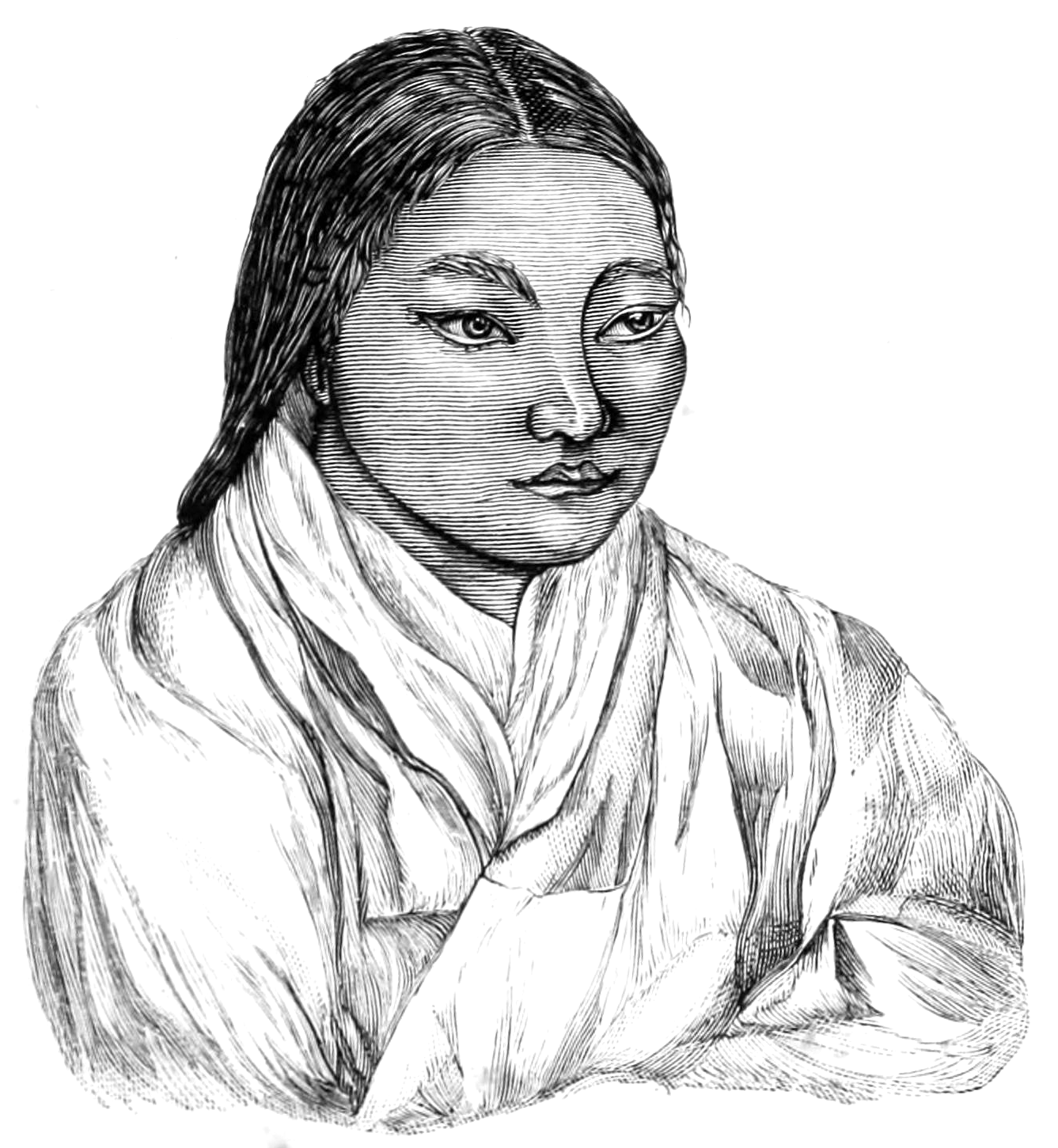 Mongolian Race.—Corean Youth.